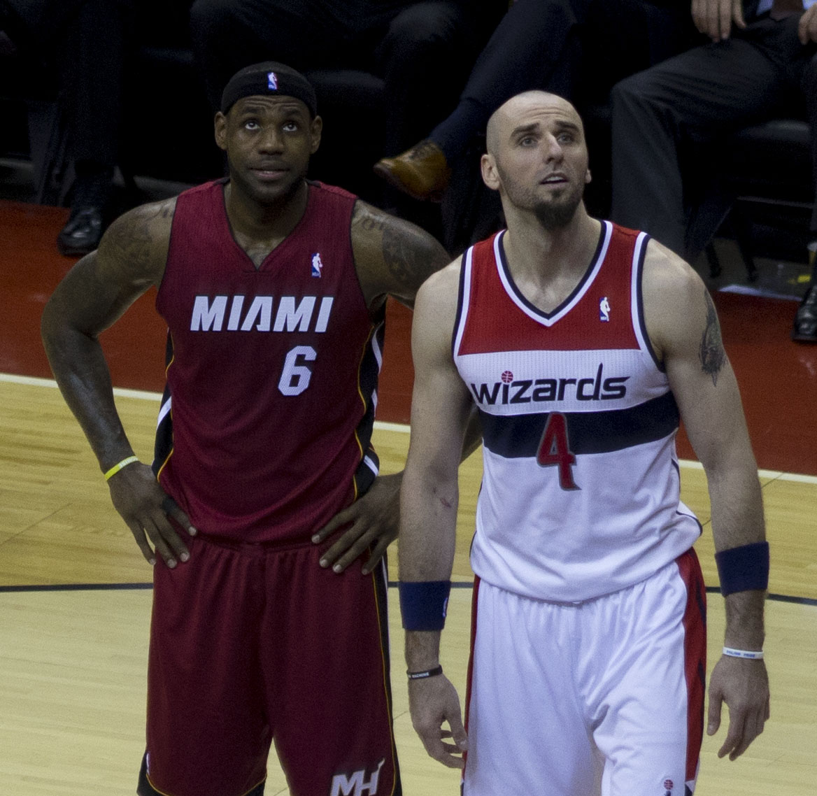 Heat at Wizards 1/15/14